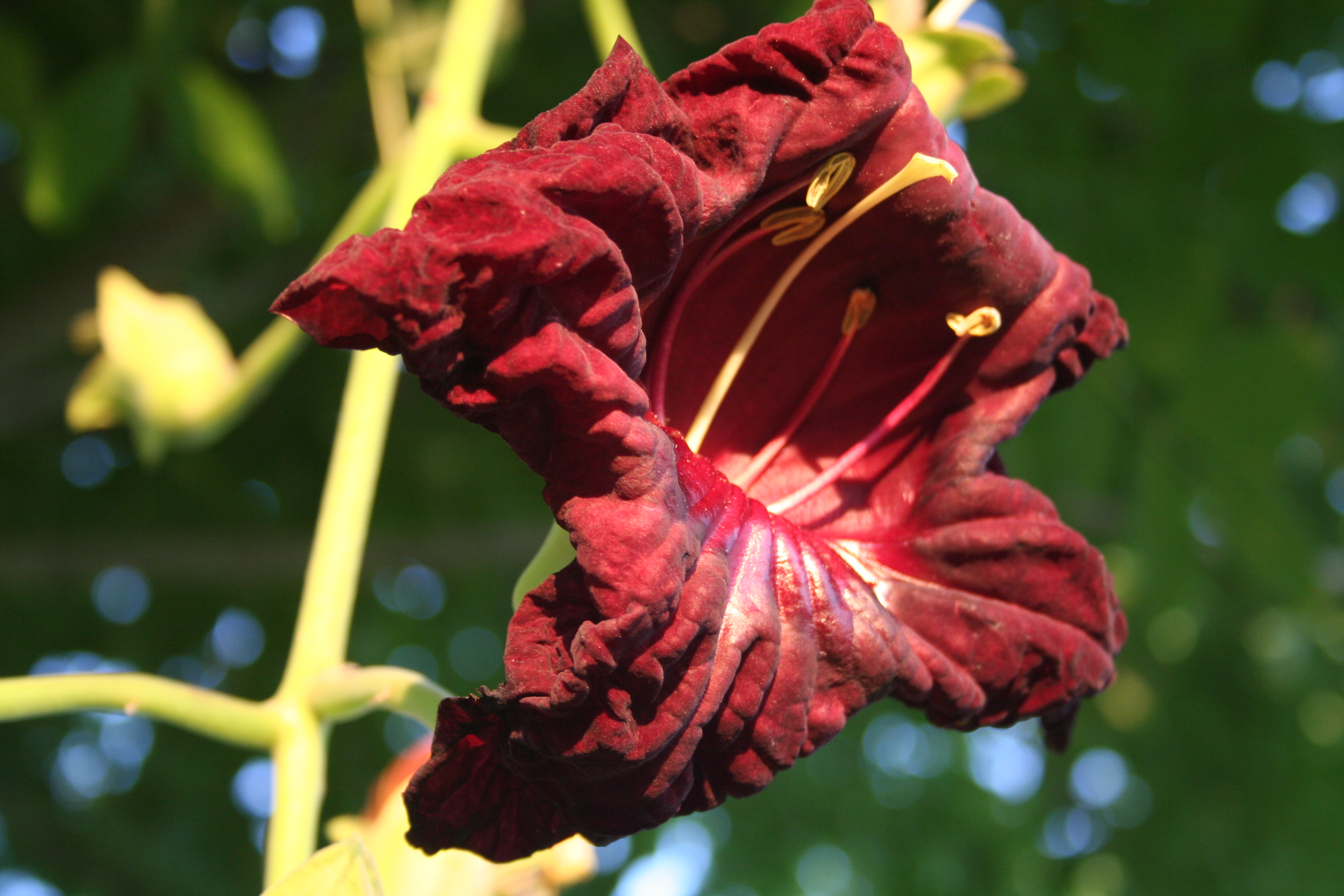 Flower of Kigelia africana in a hotel garden in Rundu, Namibia